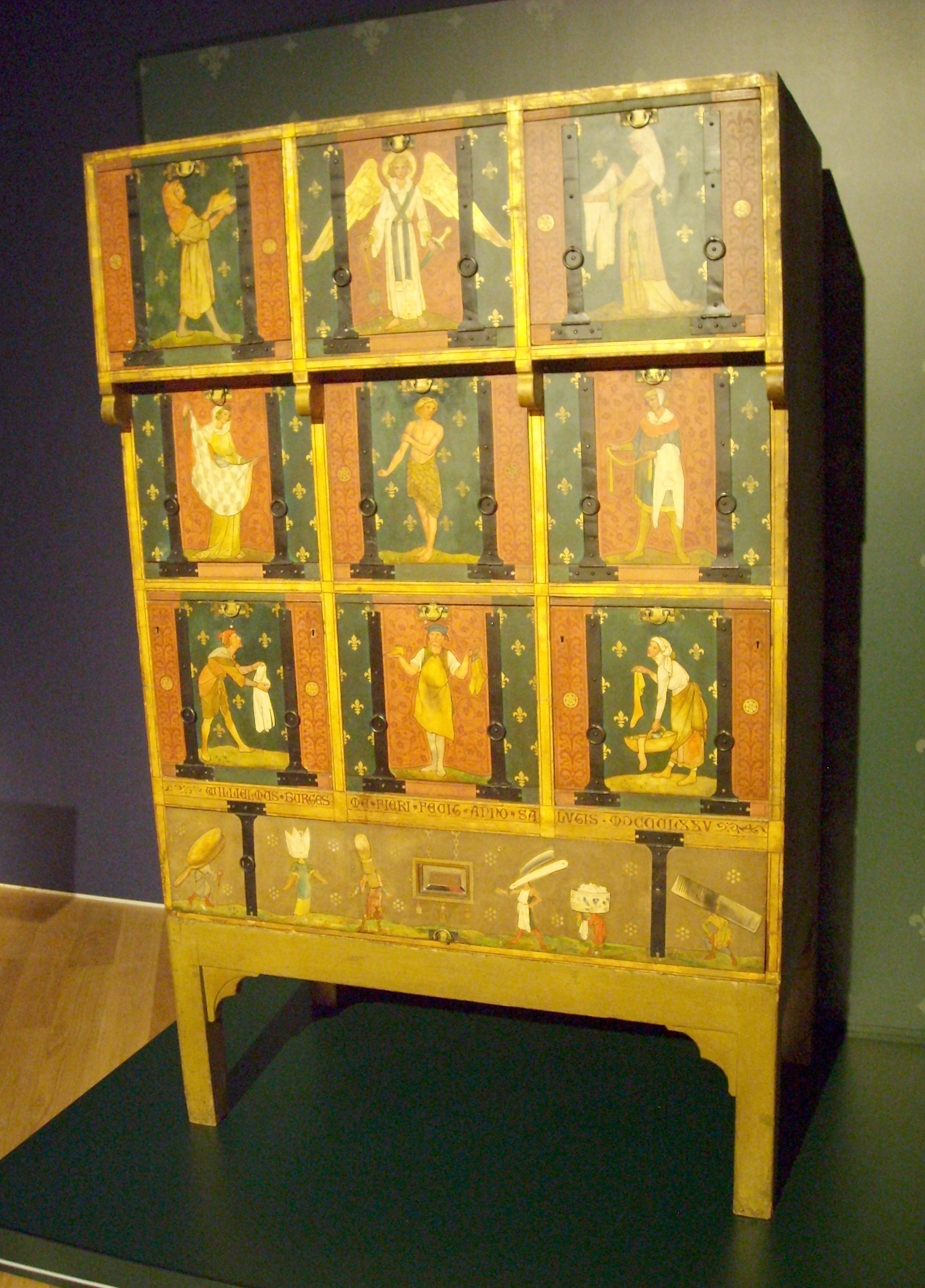 A wardrobe, designed by William Burges and probably painted by Frederick Weekes, on display at The Higgins museum and gallery, Bedford.